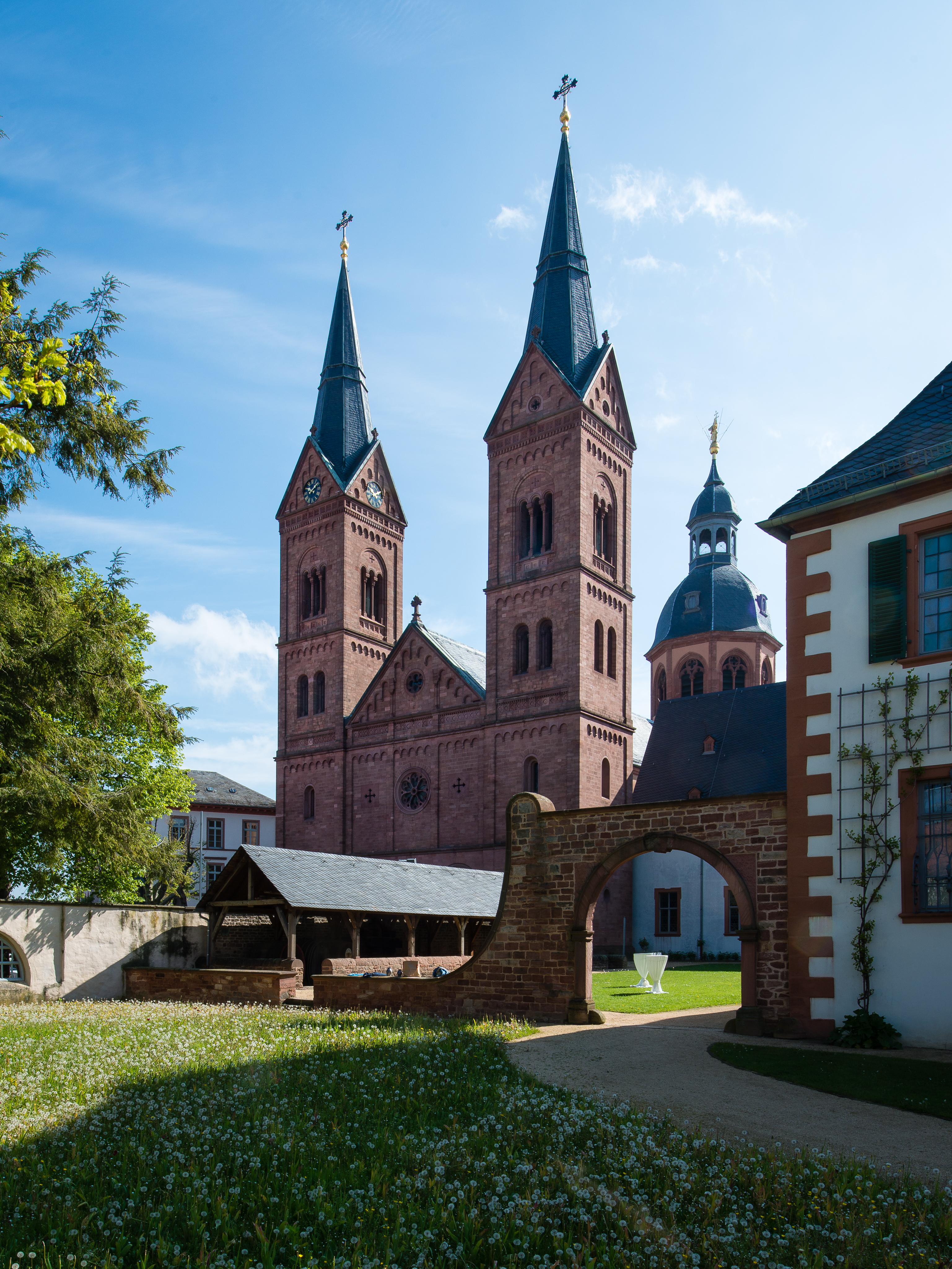 Seligenstadt, St. Marcellinus and Petrus behind the garden of the prelature